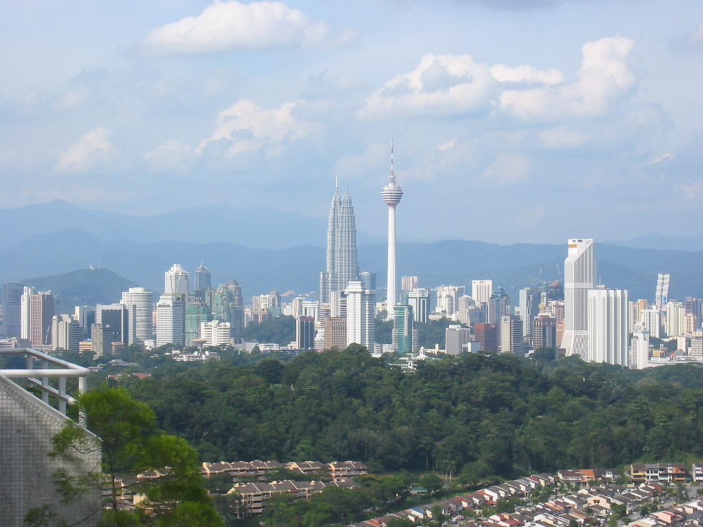 A view of Kuala Lumpur and the surrounding landscape from the Sri Wanqsaria apartment complex in Bangsar.